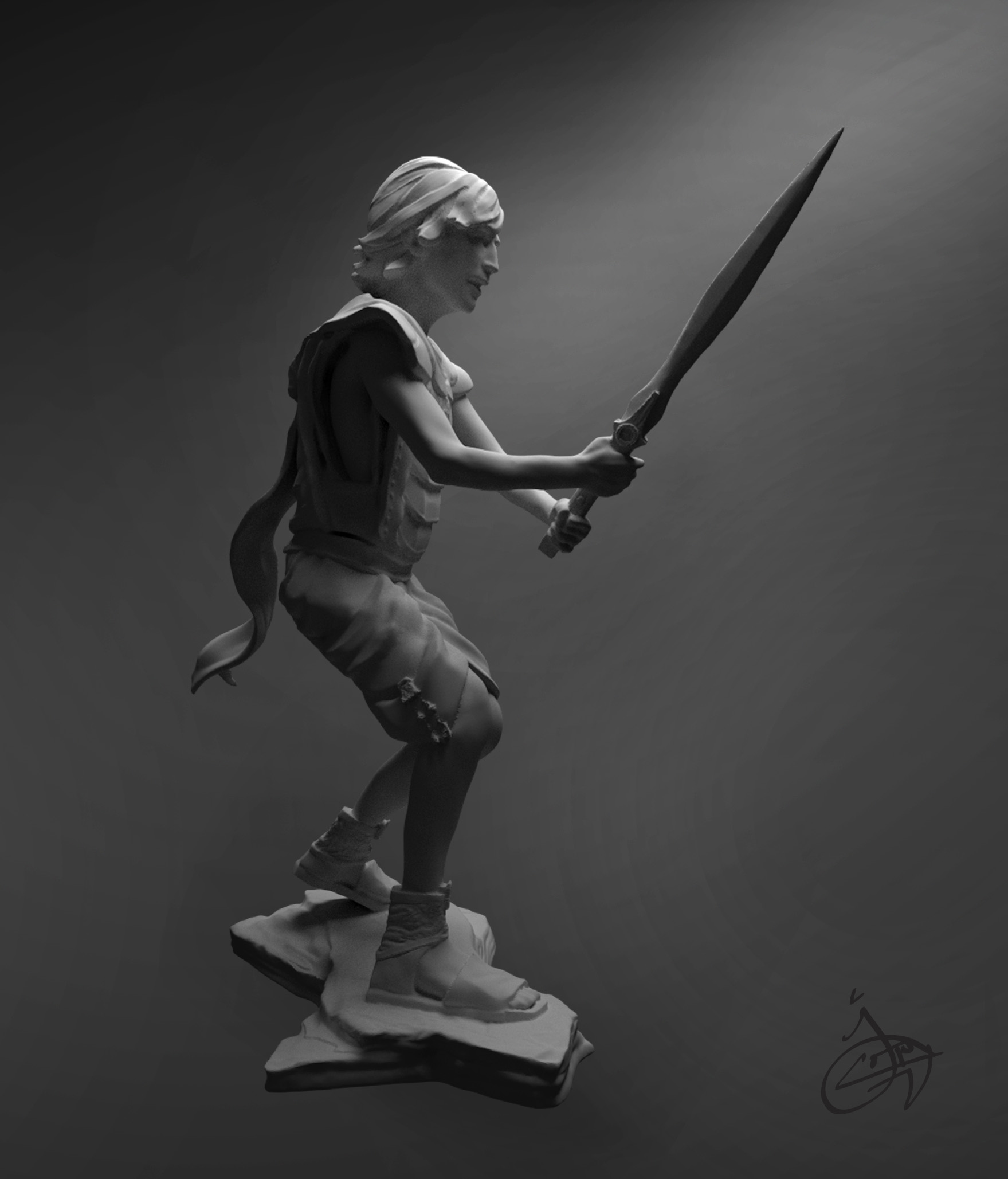 An artist's interpretation of one of the 2060 stripling warriors, also known as the "sons of Helaman". Digital sculpture by Josh Cotton.